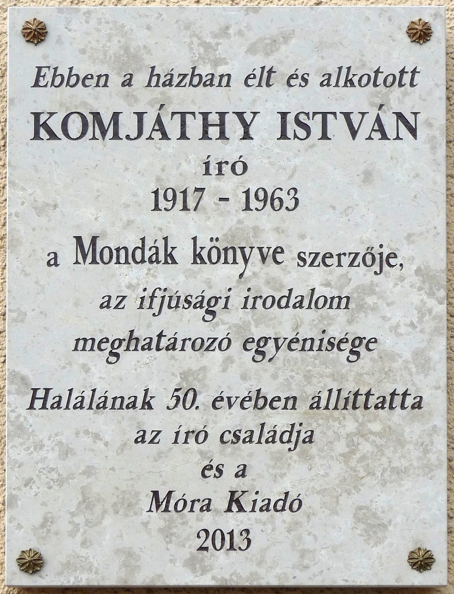 Commemorative plaque to Mr. István Komjáthy (1912-1963) Hungarian writer and literary translator. It has been placed on the wall of his former home November 12, 2013 to mark the 50th anniversary of his death. (Budapest, District XIII, Váci Avenue Nr 34)